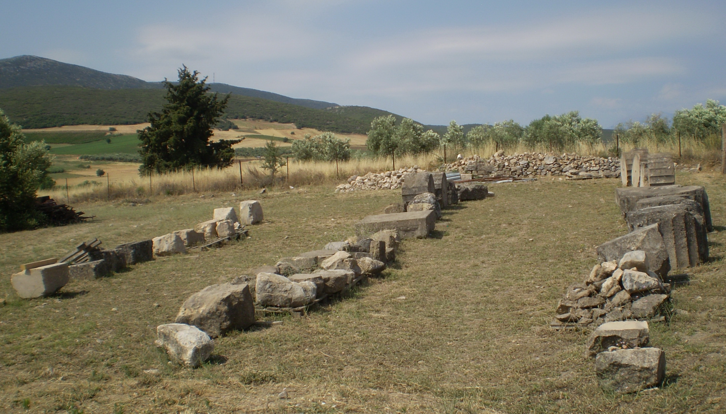 Part of the ancient greek city "Iampolis" in Kalapodi Fthiotis, in Central Greece.